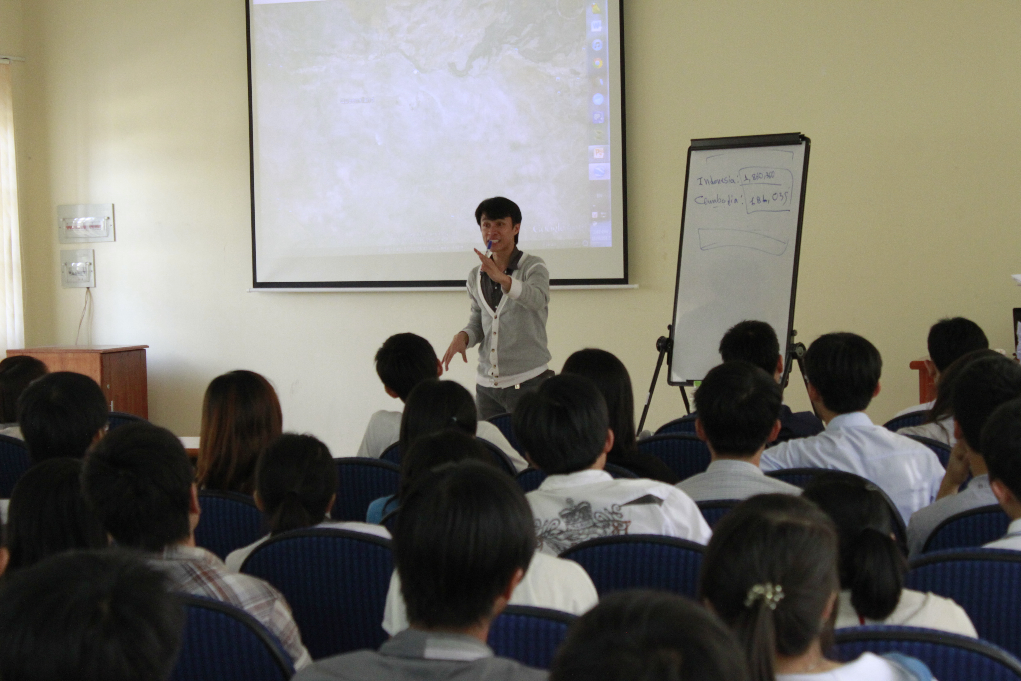 self taken pictures